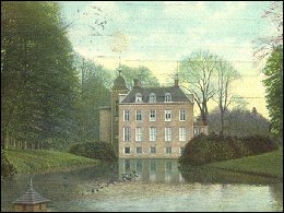 Huis Zypendaal, seen from the north, in Park Zypendaal, Arnhem.